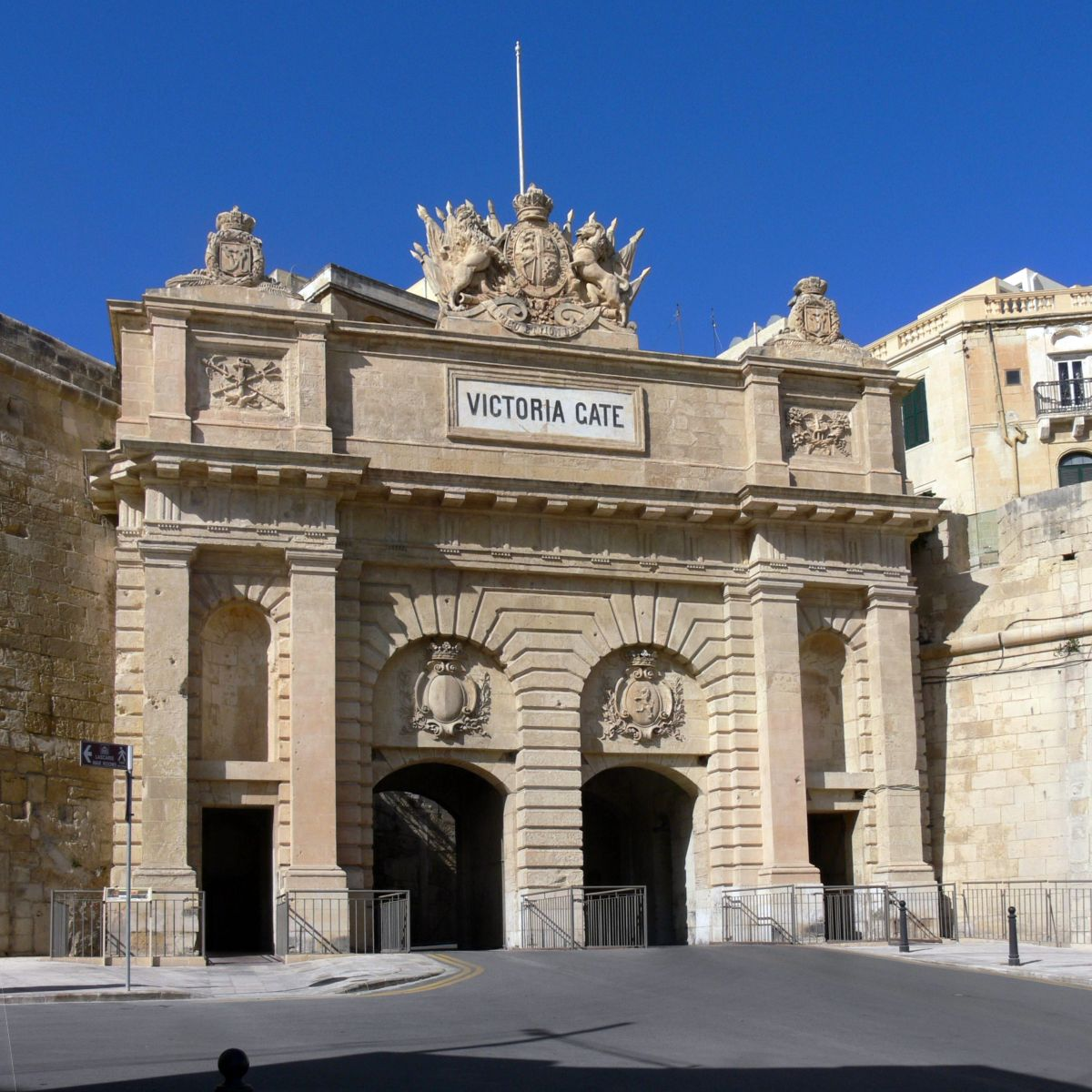 The Victoria Gate of Valletta, Malta